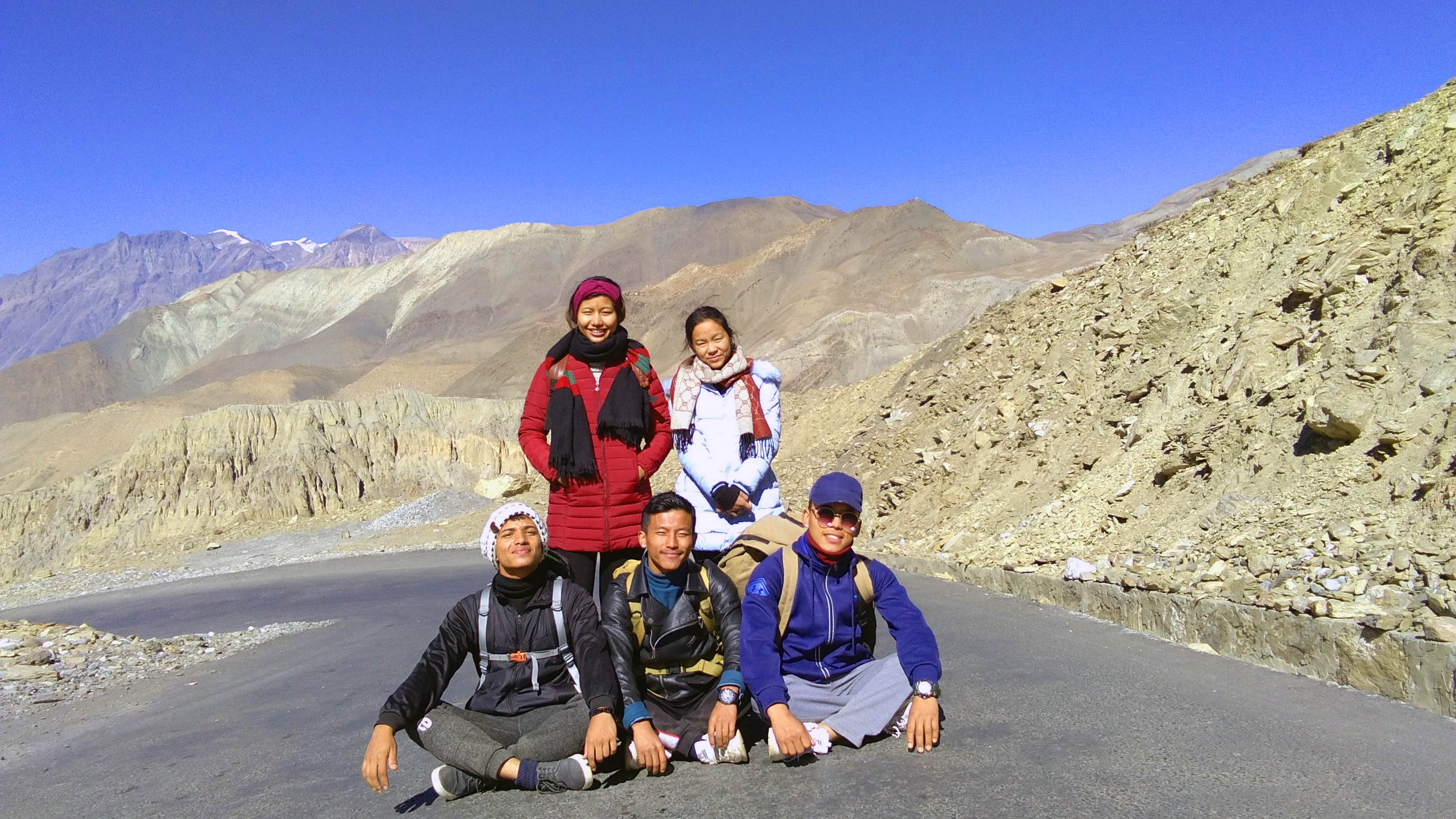 Group Photo at Mustang Nepal